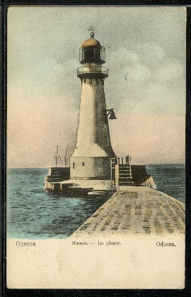 Old Metal Vorontsov lighthouse in Odessa, Russian Empire